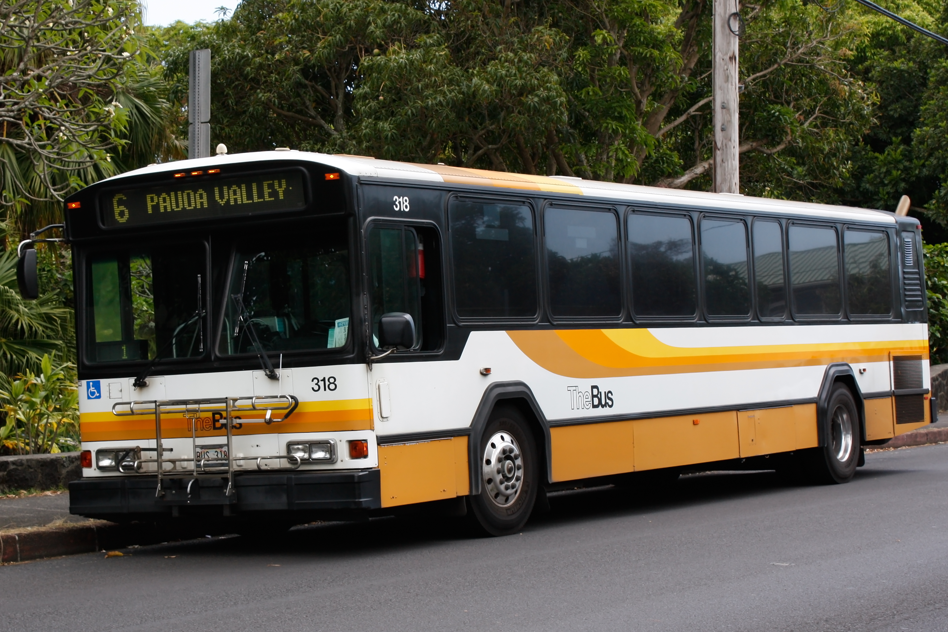 Parked on East Manoa Road at route terminus in Manoa Valley while laying over between runs.